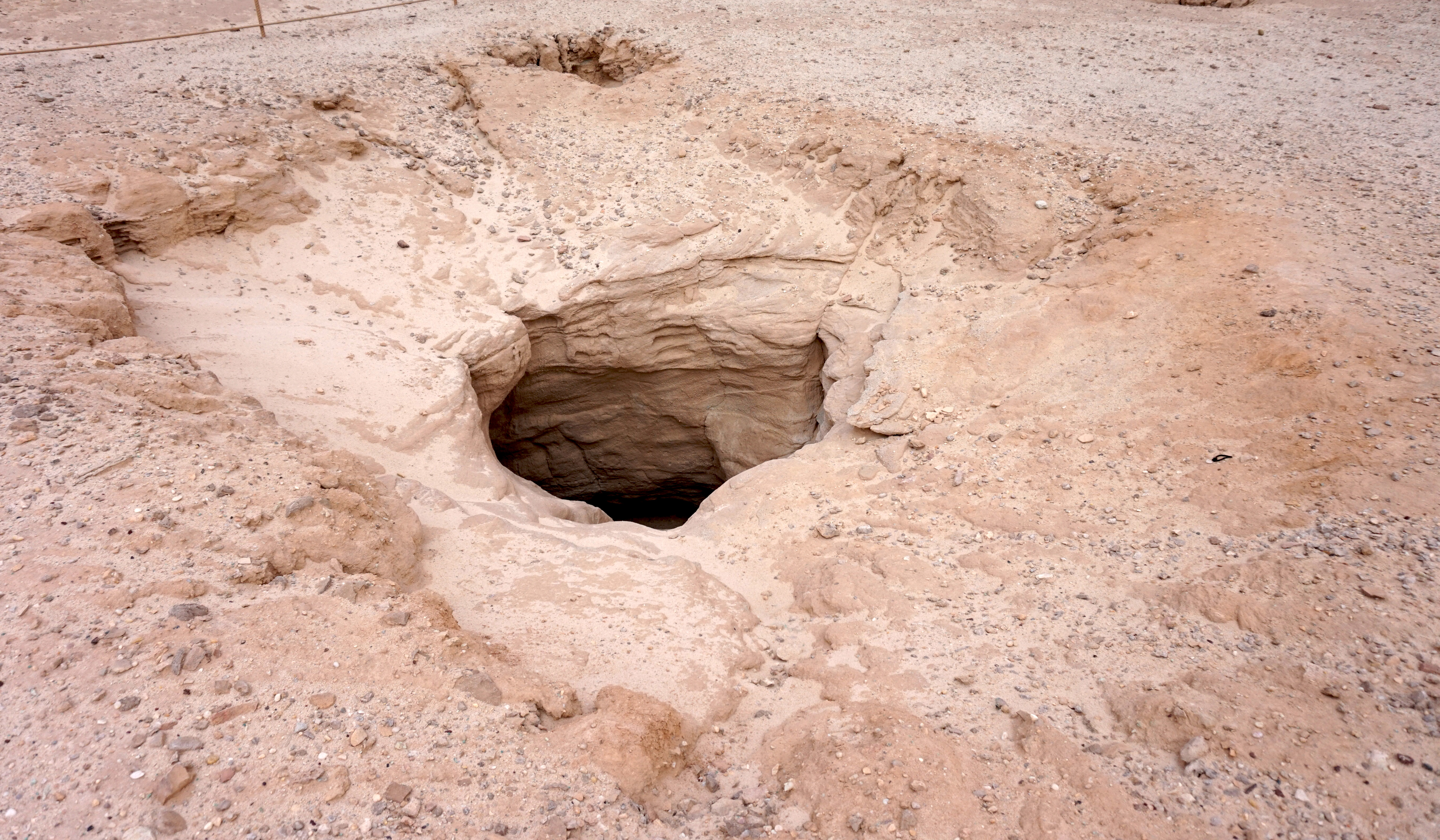 Mine in Timna Park, Israel.This photograph was taken with a Sony ILCE-5000